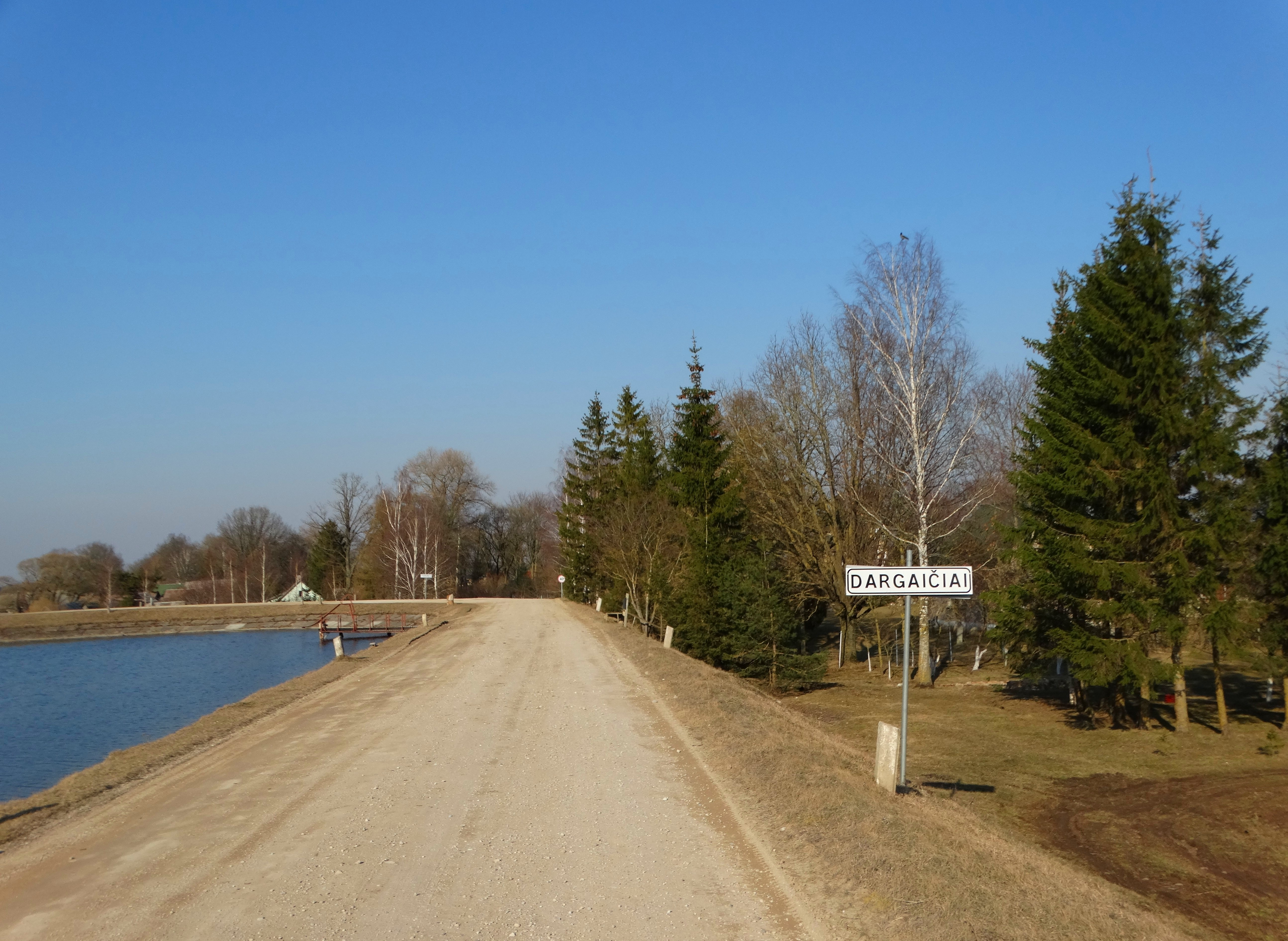 Dargaičiai, Šiauliai district, Lithuania